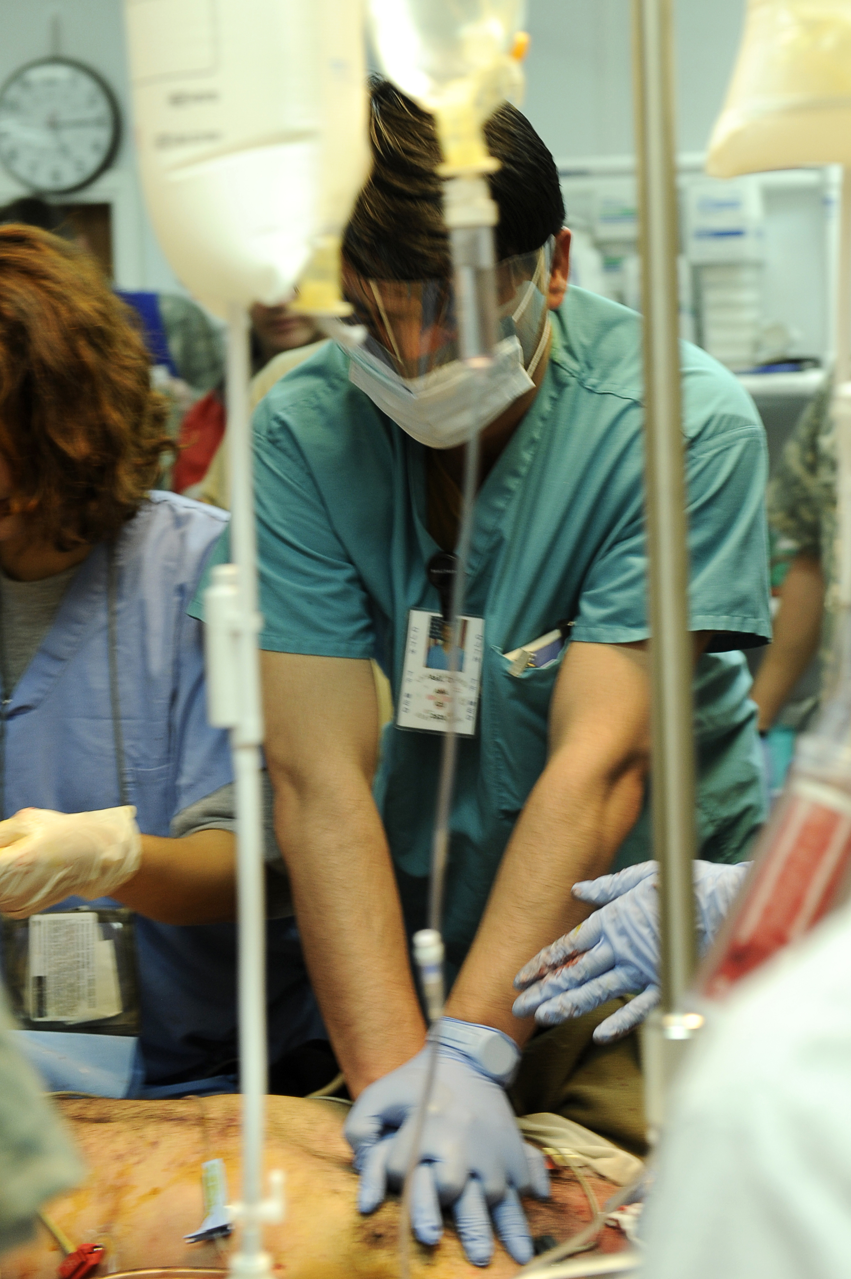 An afghan physician works in the emergency room to save an avalanche victim who was medically evacuated to Craig Joint Theater Hospital, Bagram Airfield, Feb. 9, 2010. Dozens of Afghans were taken to Bagram Airfield after an avalanche struck a mountain pass in the Parwan province in north eastern Afghanistan.